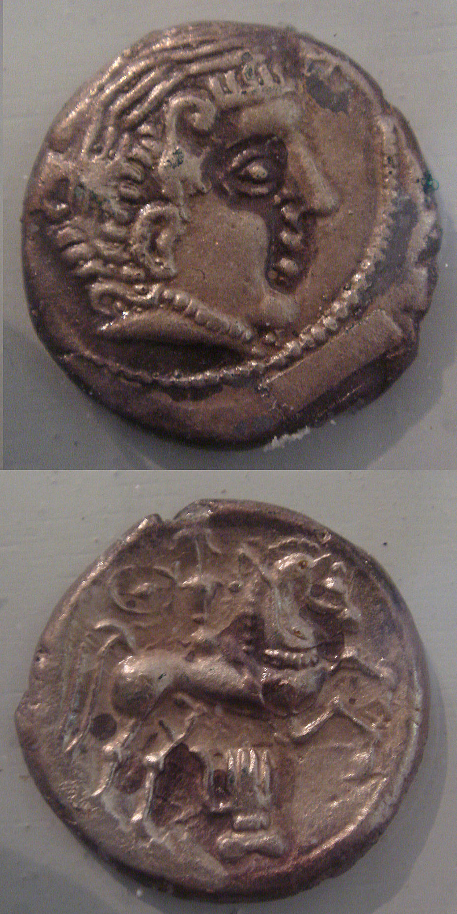 Pictones_coinage 5th 1st century BCE.